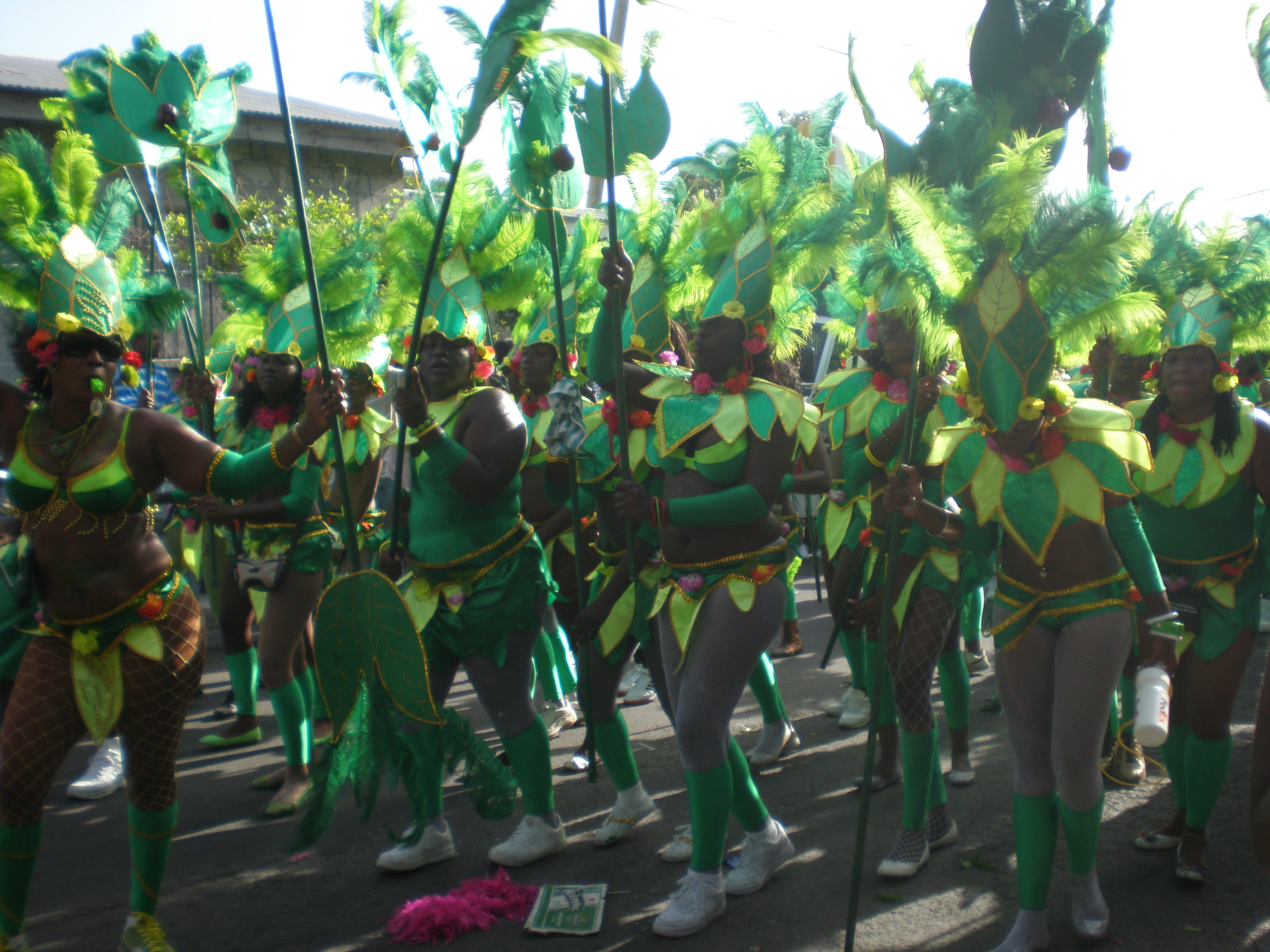 Antigua Carnival Revellers.